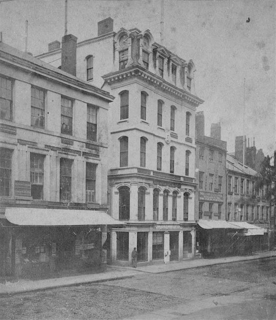 Accession No.: 06_11_000075 Title: Daily Advertiser Building, Court Street, Boston, ca.1870s? Series: American Series. Local Subject: Commercial Buildings Subject: Boston (Mass.) Format: Derived from stereograph BPL Department: Print